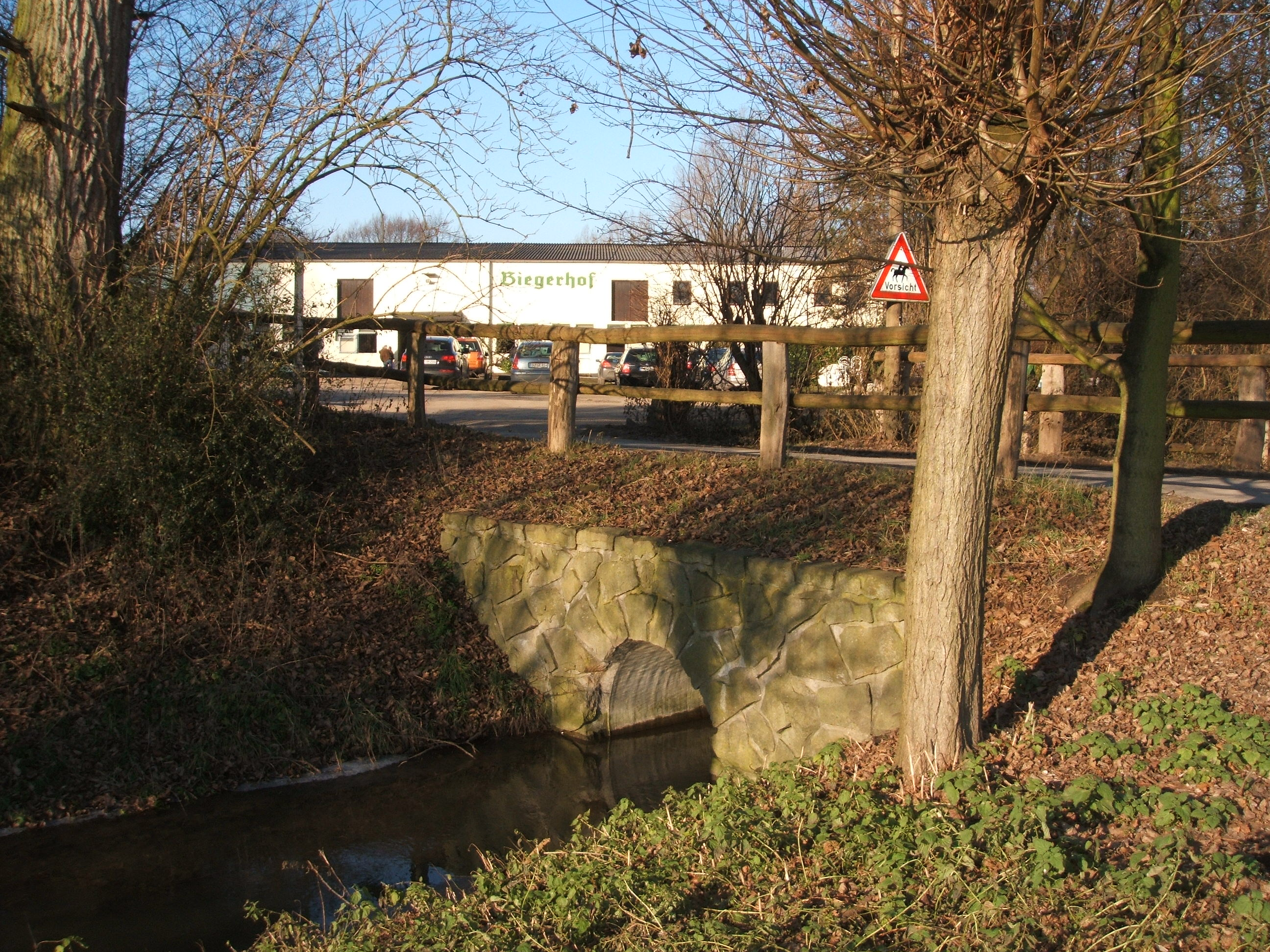 Biegerhof and Angerbach in Duisburg-Huckingen (Germany)